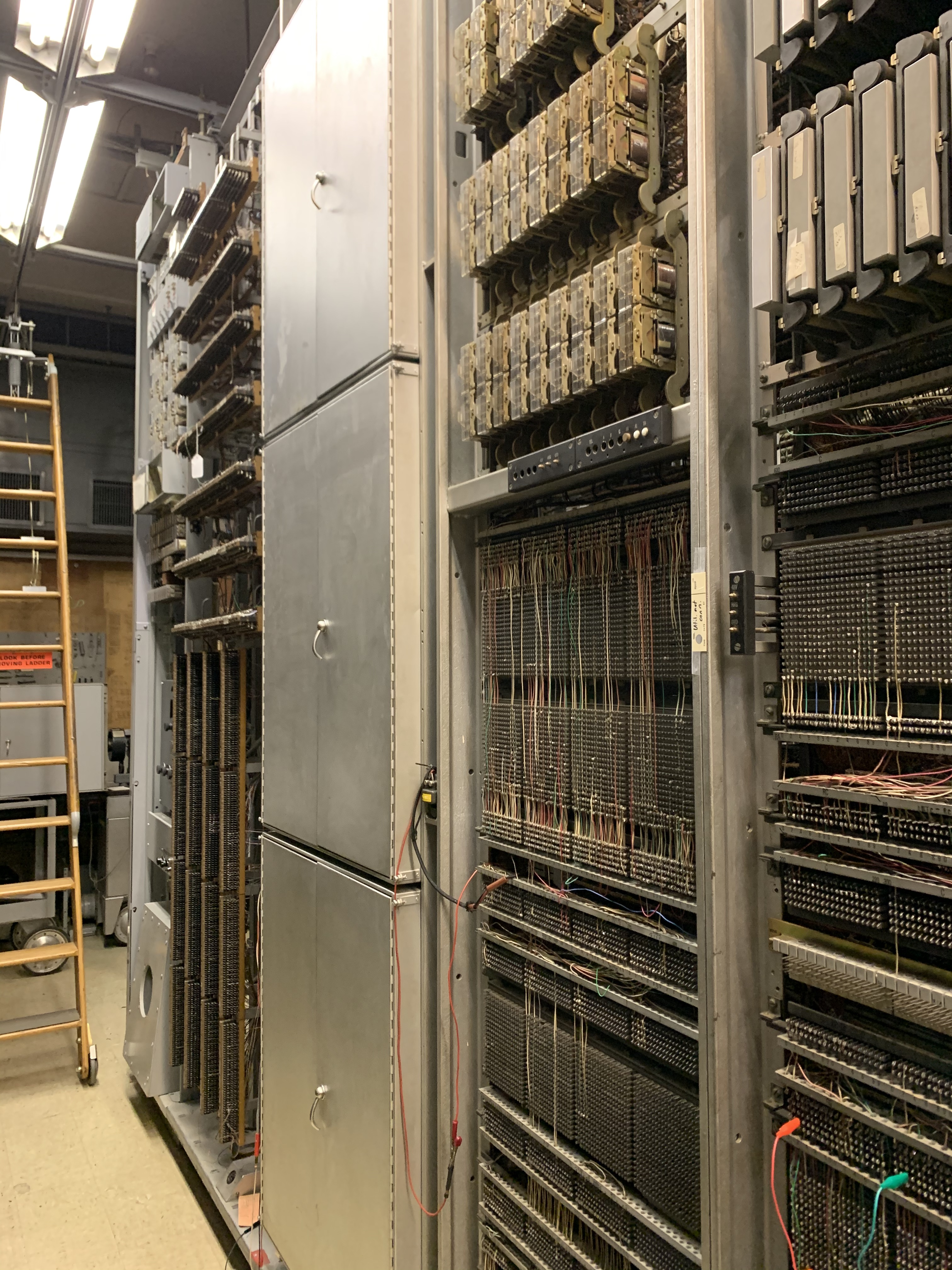 This photograph shows an Originating Marker from a No. 1 Crossbar telephone switch. The cabinets in the center contain the relay logic, and the field of terminals on the right side encode the translation information for each office code dialed.